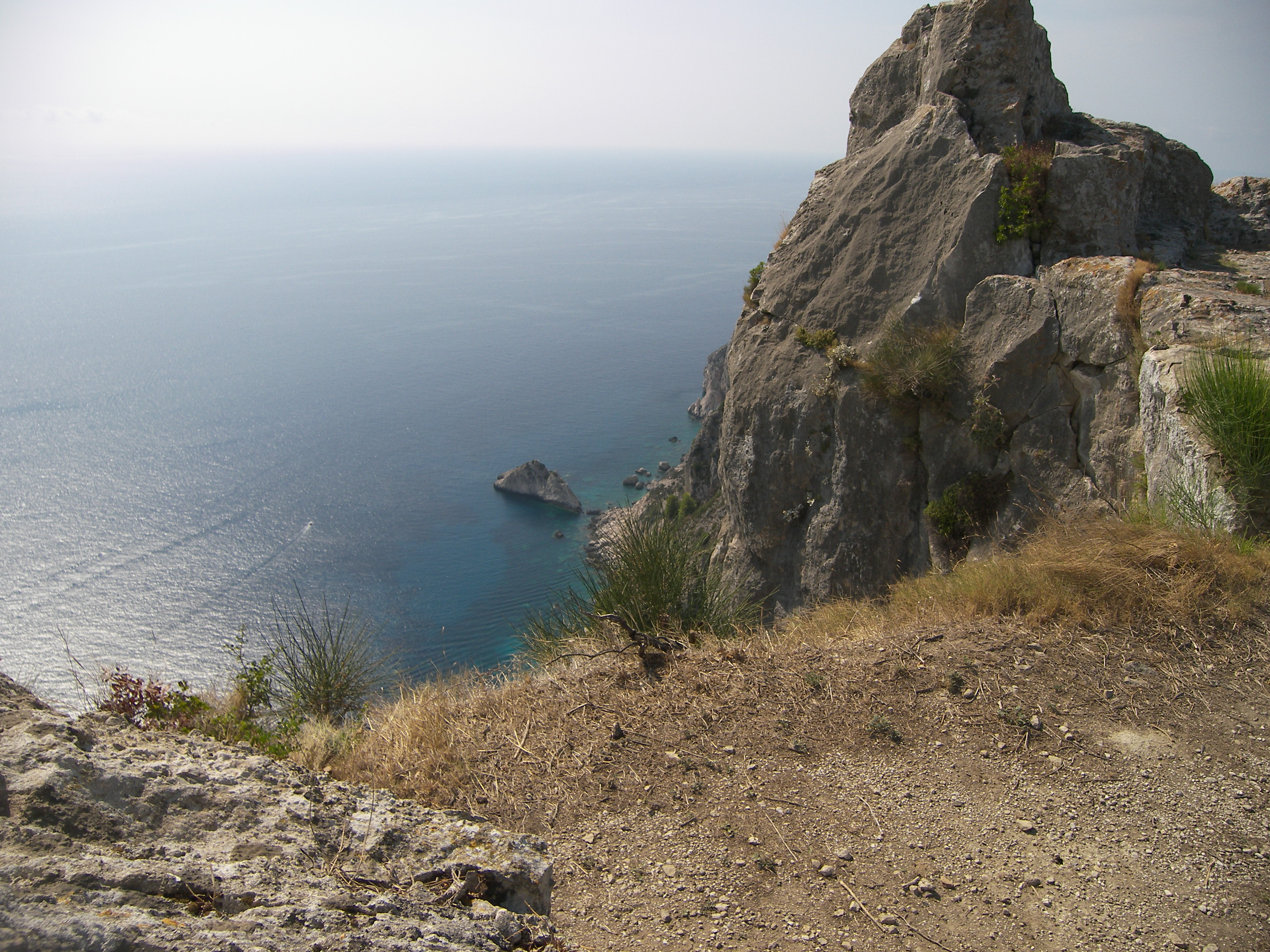 Sea view from Angelokastro